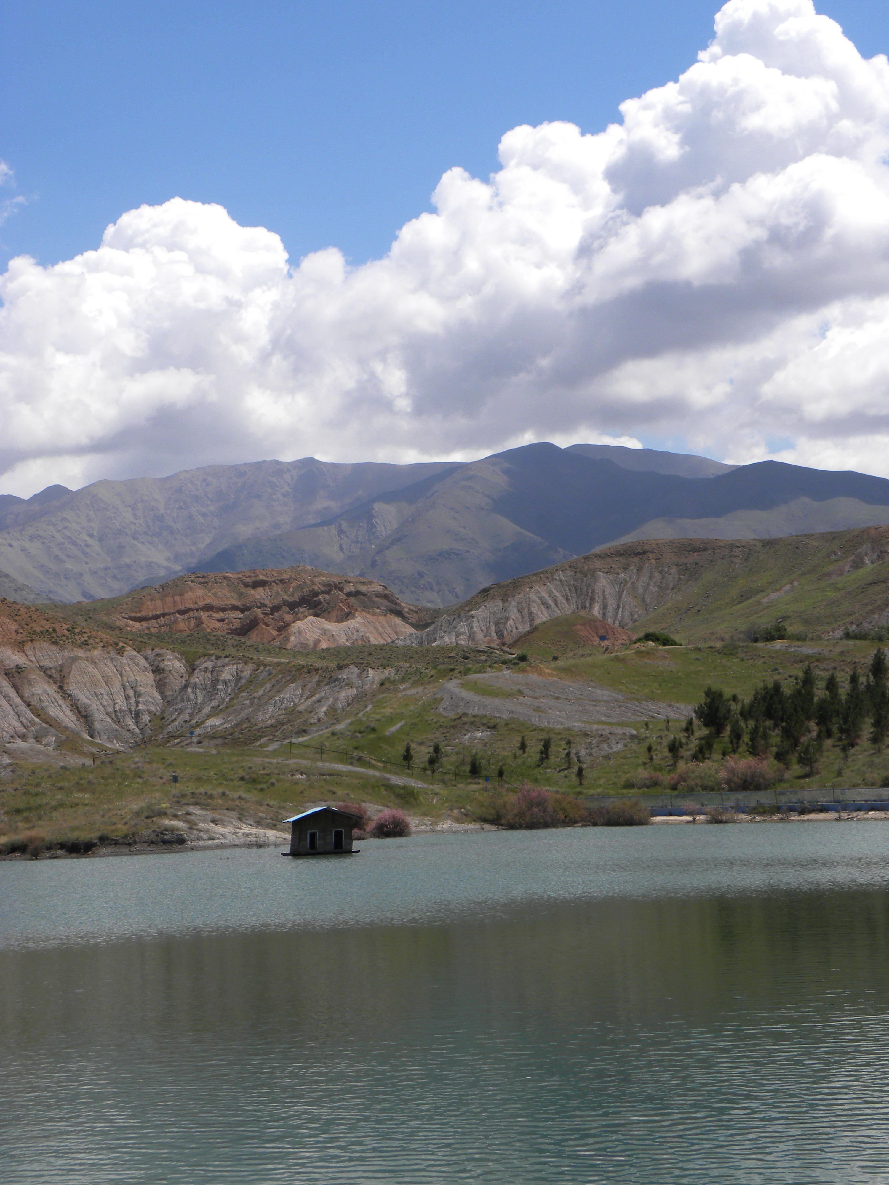 Nature of Nishapur